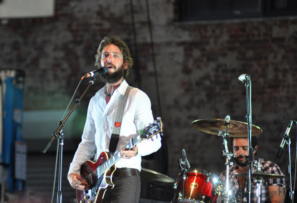 Ben Bridwell of Band of Horses at the Williamsburg Waterfront, Brooklyn, June 20, 2010 with Creighton Barrett